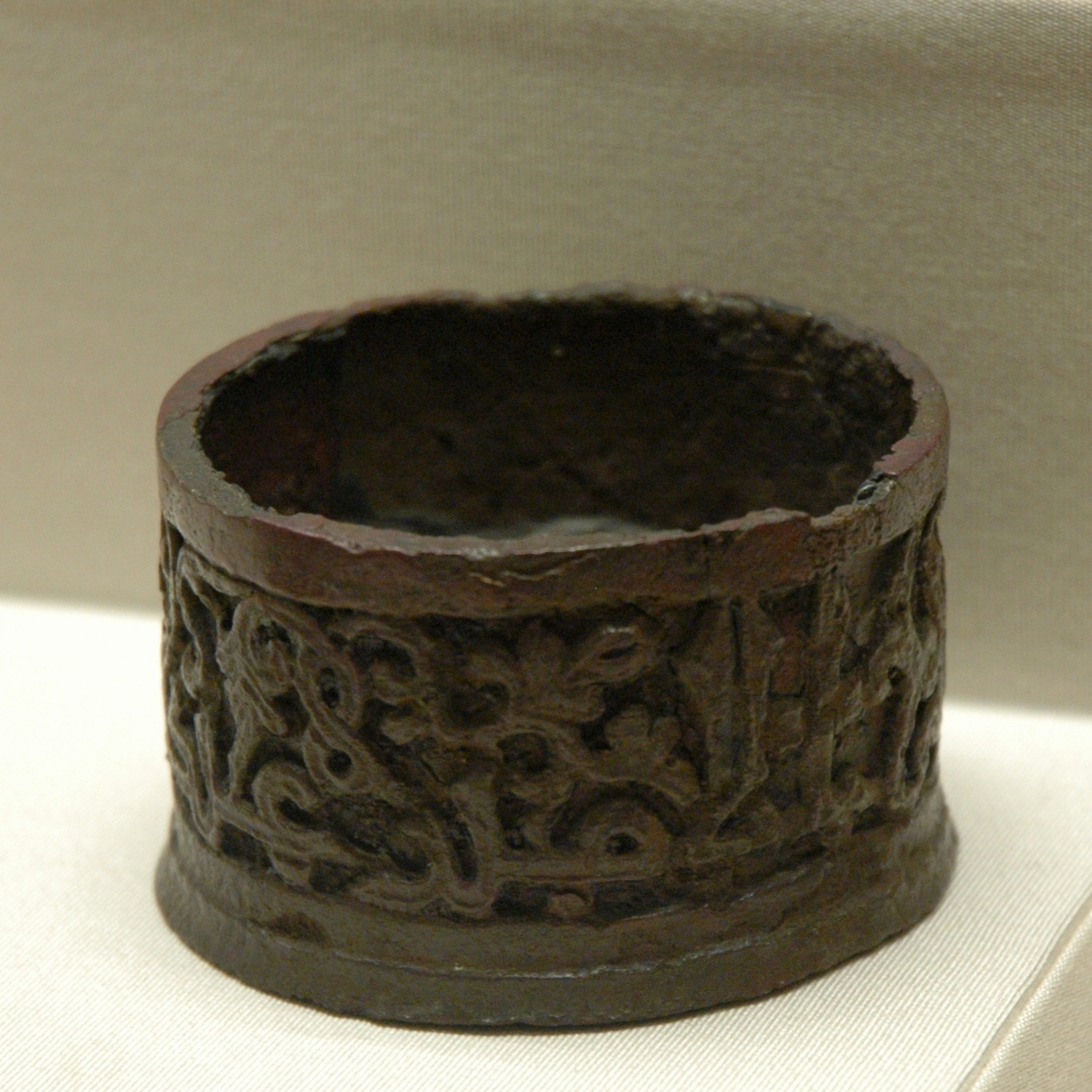 Inkwell (?) bearing the name of Emir Abd Allah ibn Hasan Parsi in flowered Kufic script. Cast copper alloy, originally inlaid (?), 11th century, Nishapur